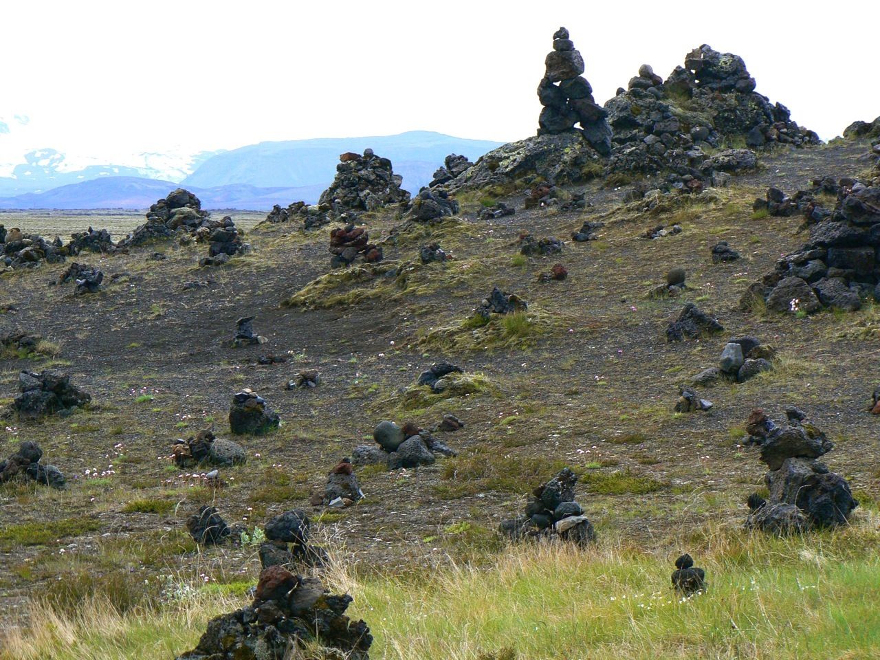 Elf Village Laufskálavarda